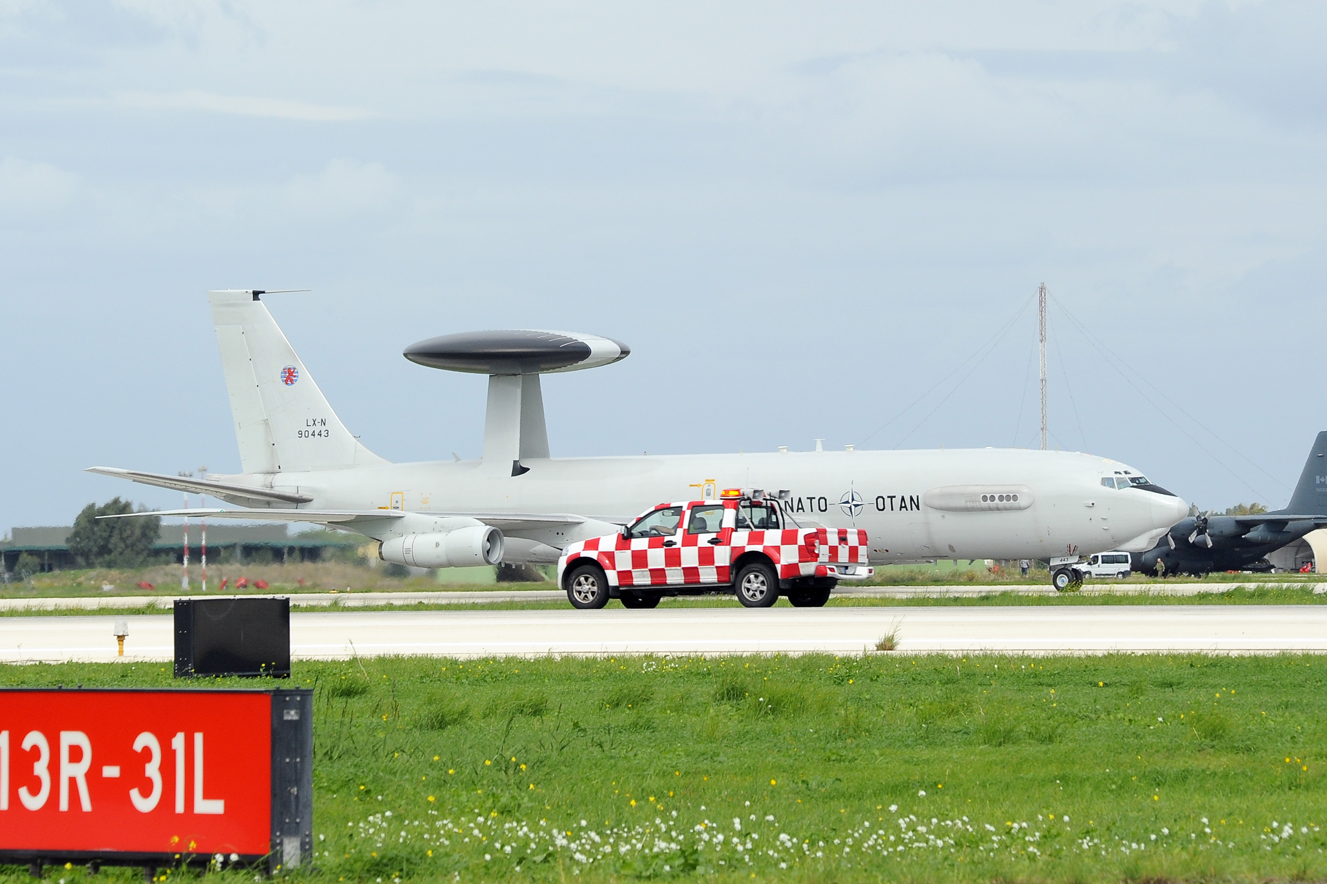 AWACS on taxiway after the mission NATO photo by Antonio STELLATO